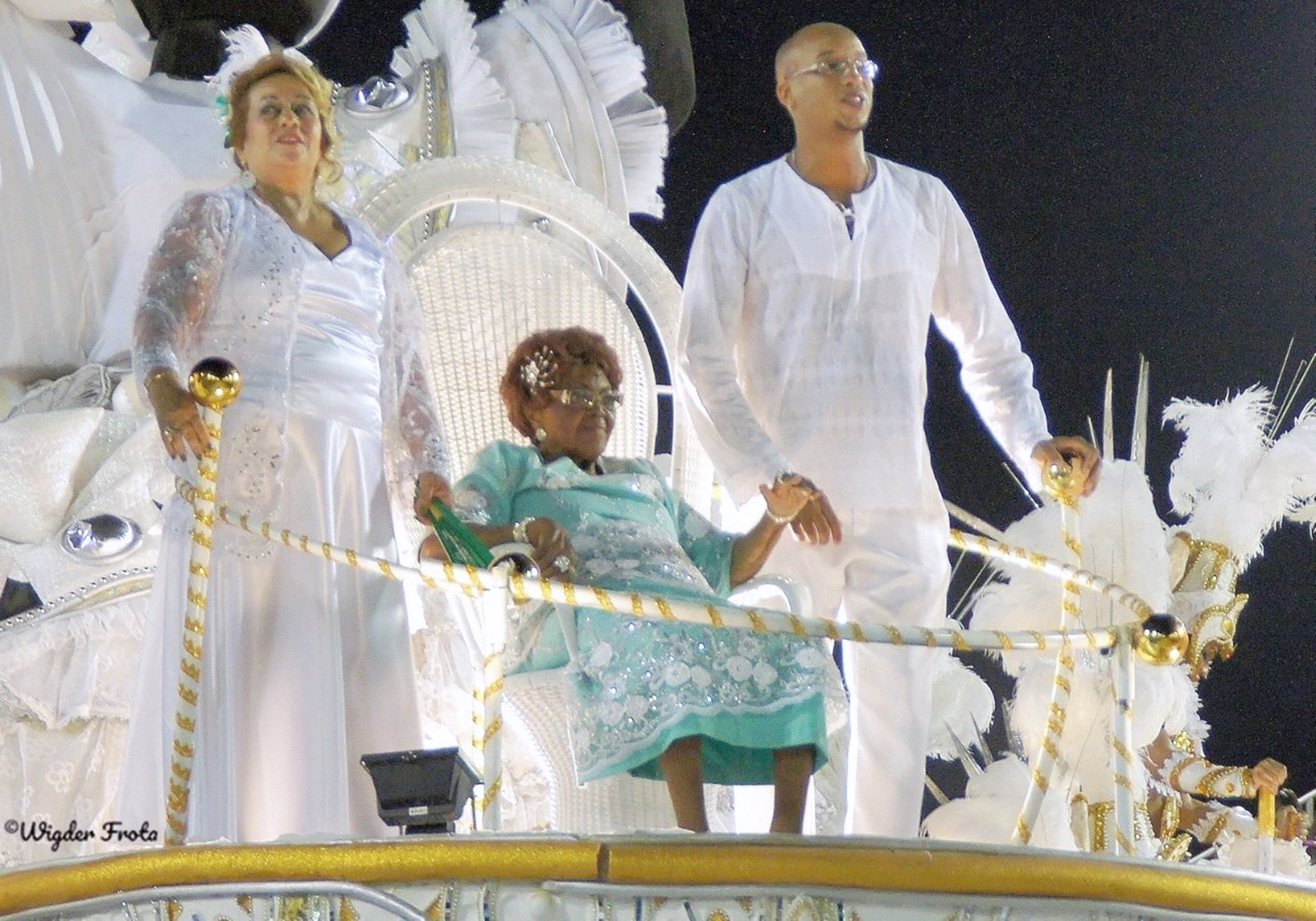 From the Series "Samba Schools, Rio de Janeiro" Carnival 2012 Photo: Wigder Frota